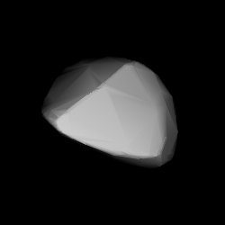 3D convex shape model of 1540 Kevola, computed using light curve inversion techniques. J. Hanuš, J. Ďurech, M. Brož, B. D. Warner (June 2011). "A study of asteroid pole-latitude distribution based on an extended set of shape models derived by the lightcurve inversion method". Astronomy and Astrophysics 530: A134. ISSN 0004-6361. arXiv